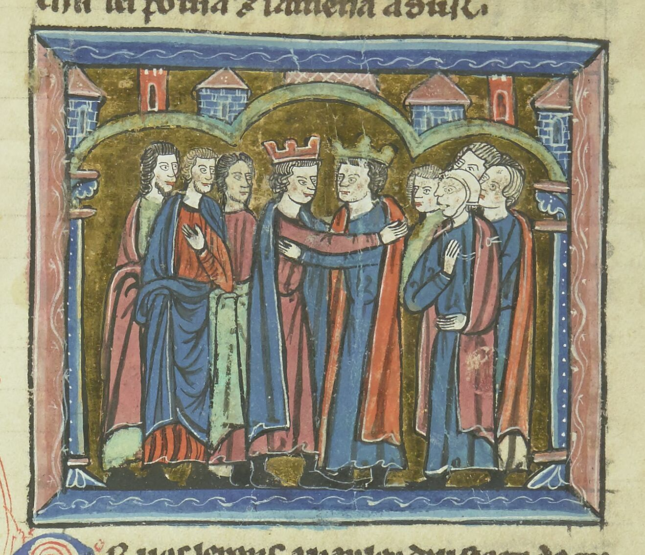 Richard Lionheart and Philip Augustus. (Bibliothèque nationale de France, Français Francais 2827, fol. 234)